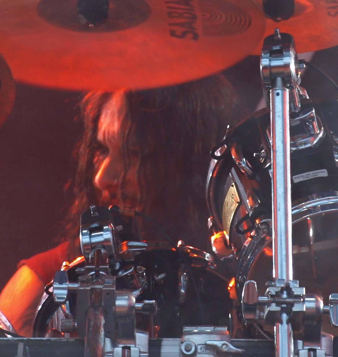 Jan Axel Blomberg from the Norwegian black metal band Mayhem live at Jalometalli 2008 in Oulu.